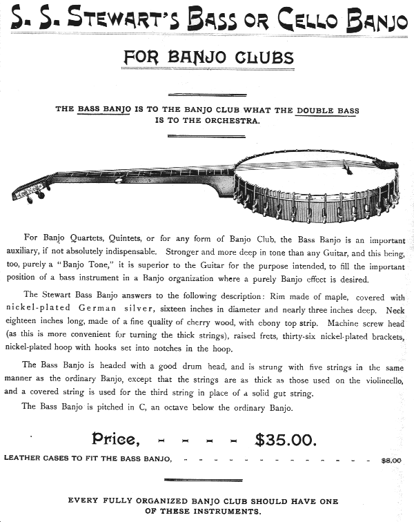 scan of catalog page for a Stewart five-string cello banjo